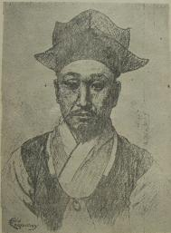 Hong Jong-woo, Korean terrorists